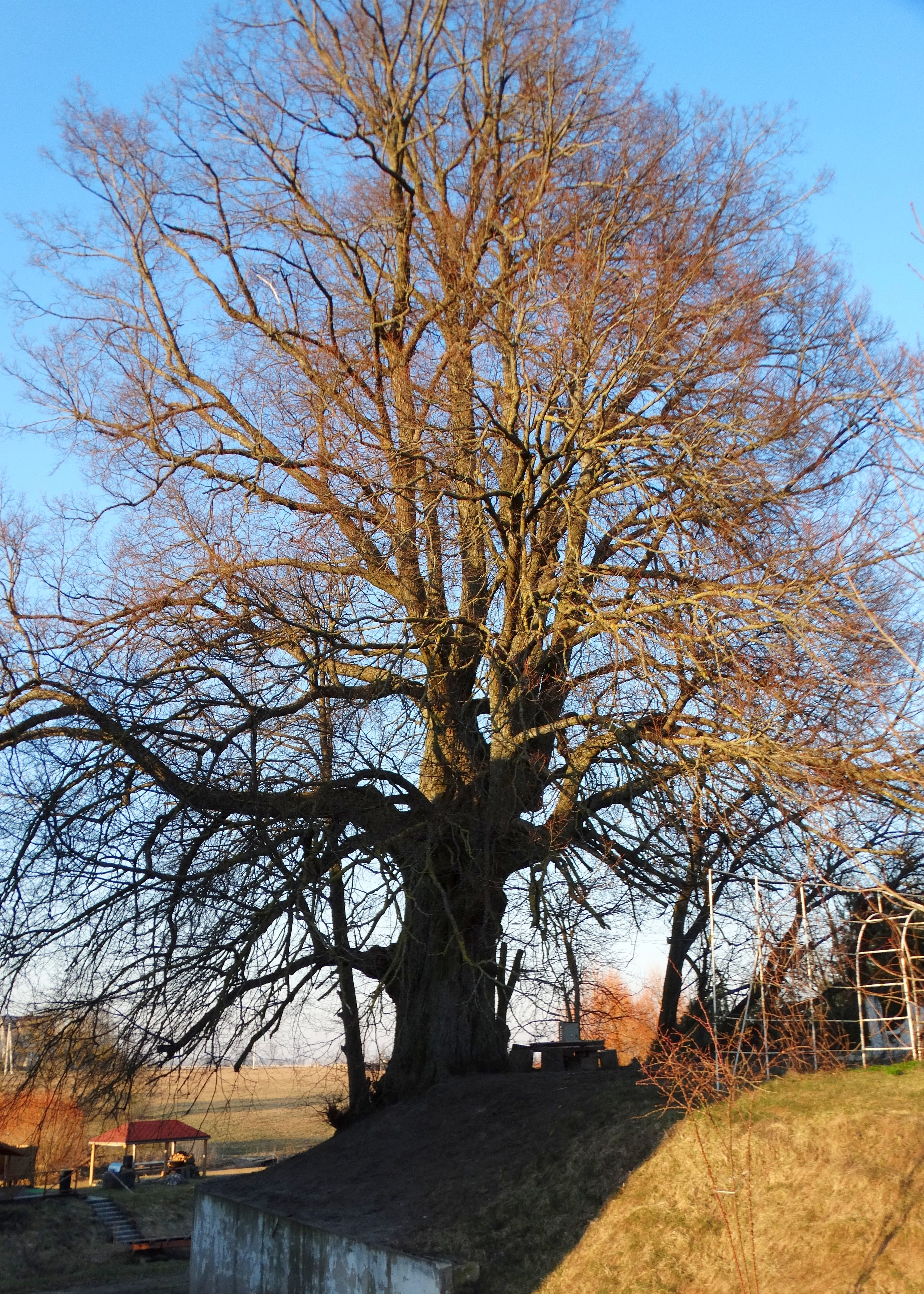 Linden tree, Šilėnai, Šiauliai district, Lithuania